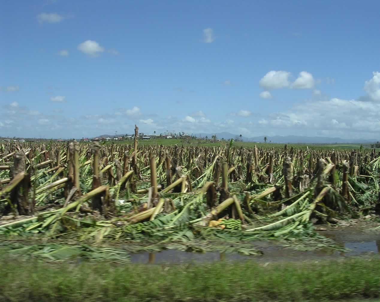 Devastation to Brenden Collins banana crop as a result of Cyclone Larry. Image captured by private camera.